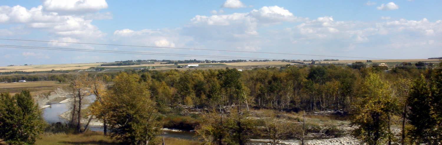 Sheep River, Alberta, south of Calgary, before it's confluence with Highwood River, photo taken from a Highway 2 bridge